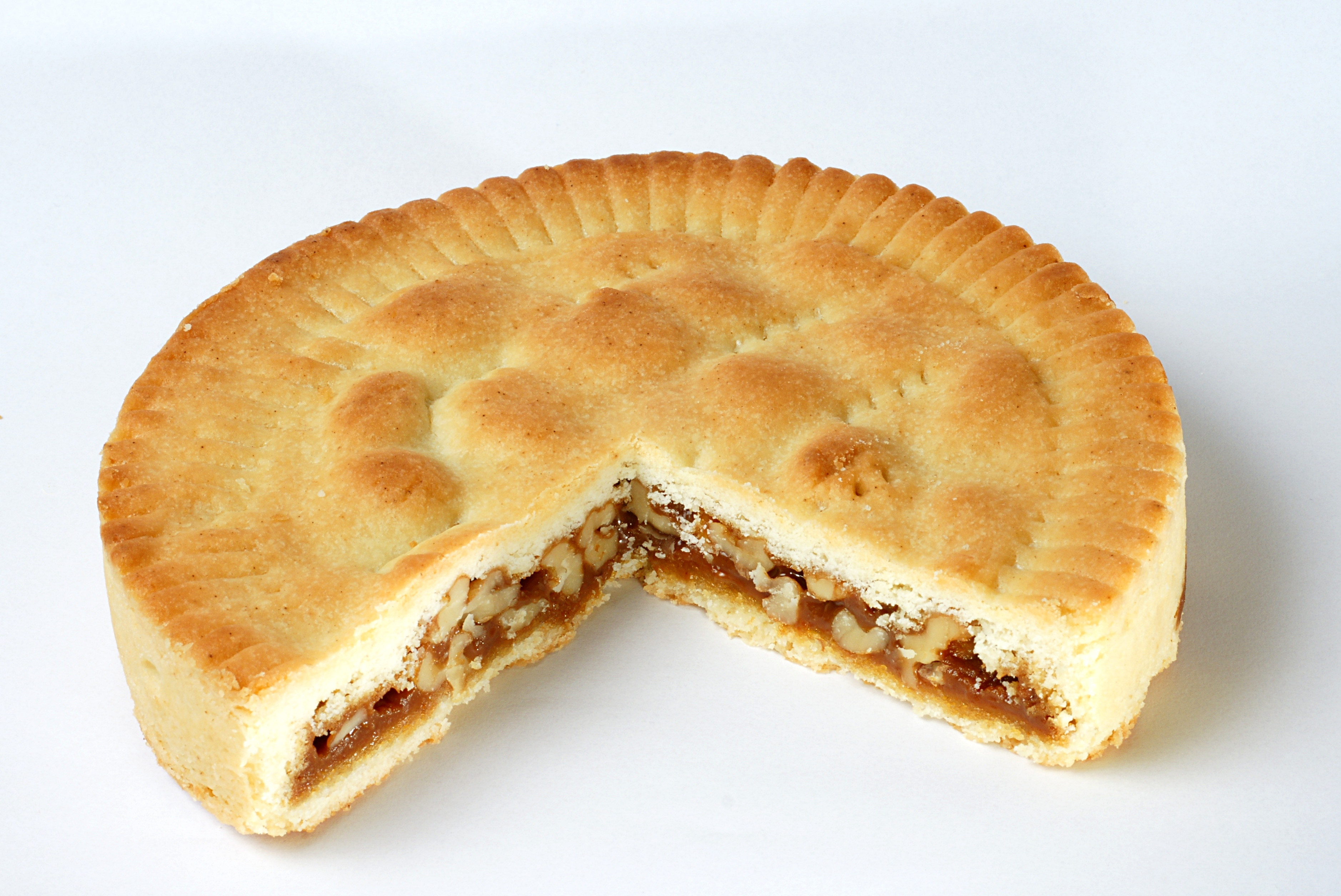 Engadine nut cake